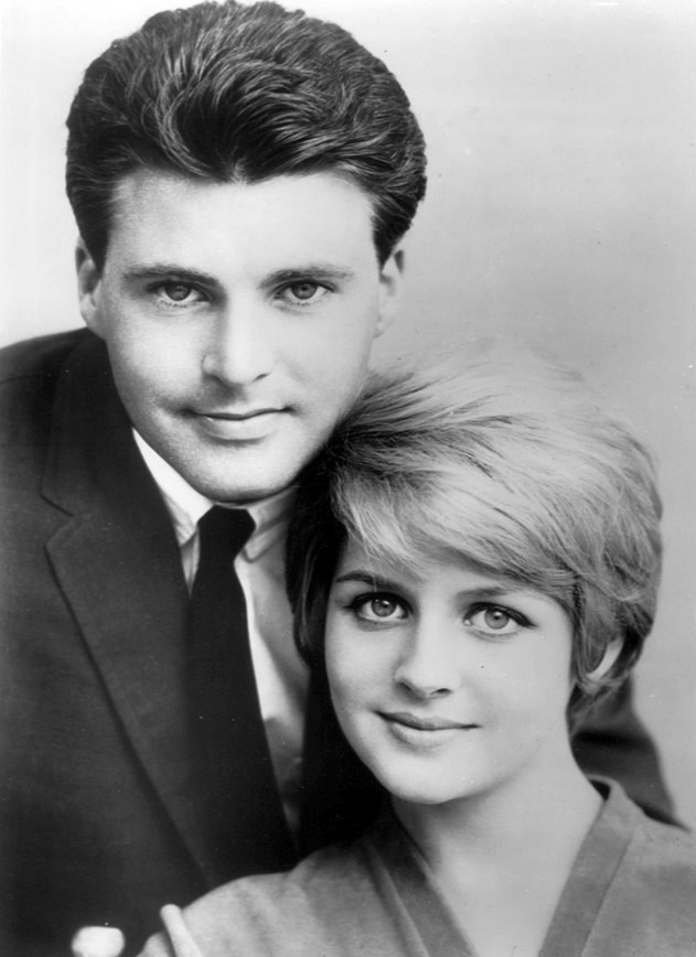 Publicity photo of Rick and Kris Harmon Nelson from The Adventures of Ozzie and Harriet.